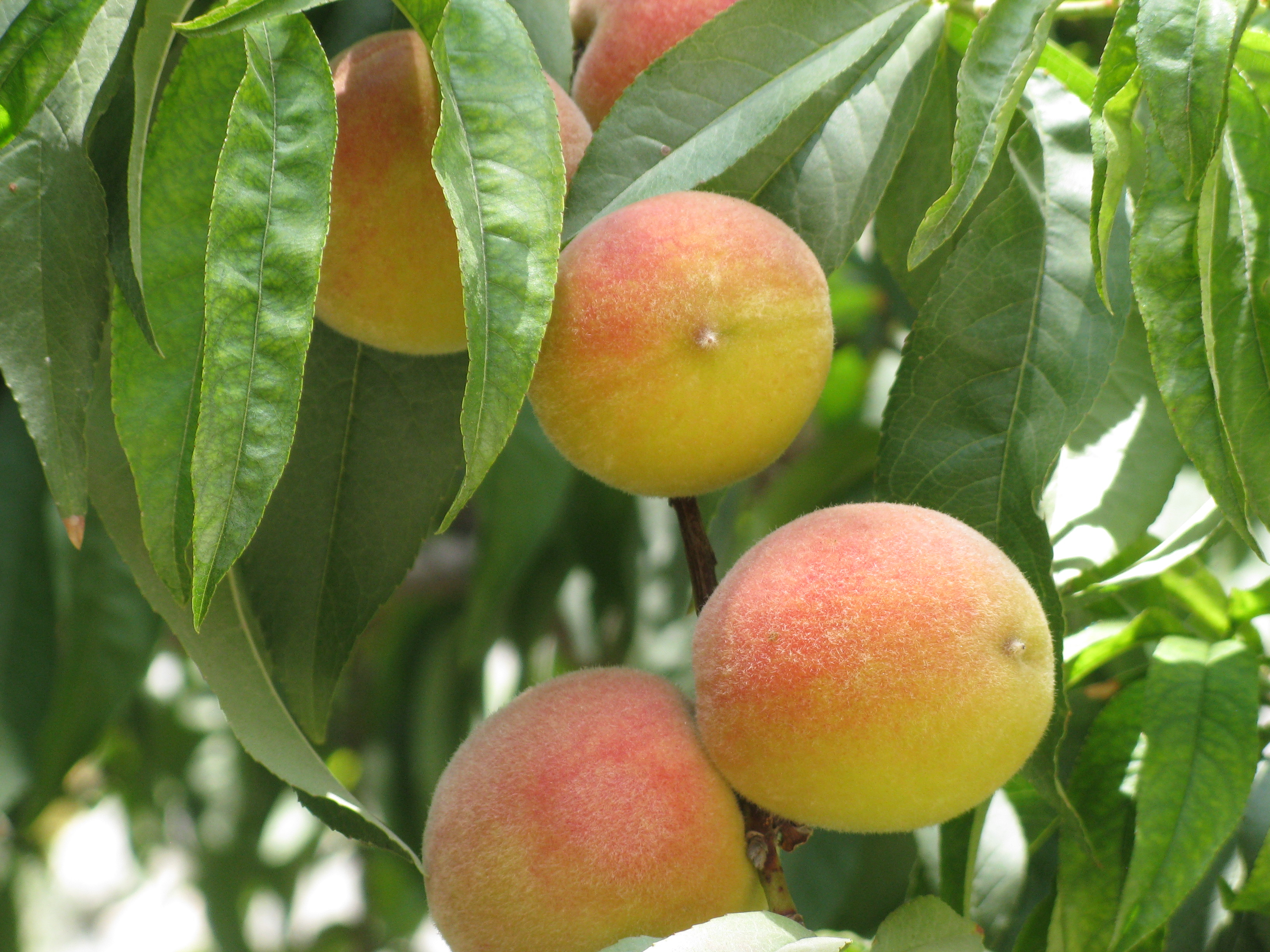 Fruits of Prunus persica.